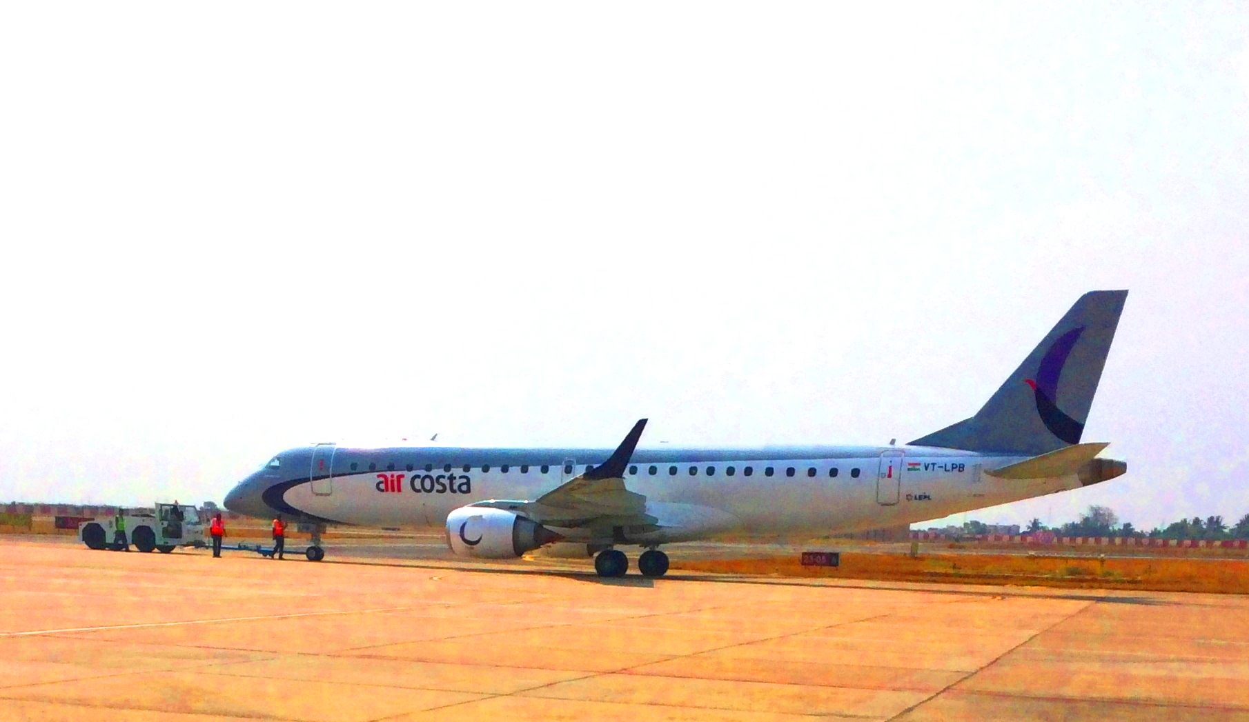 Air costa at CJB